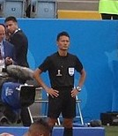 Ryūji Satō